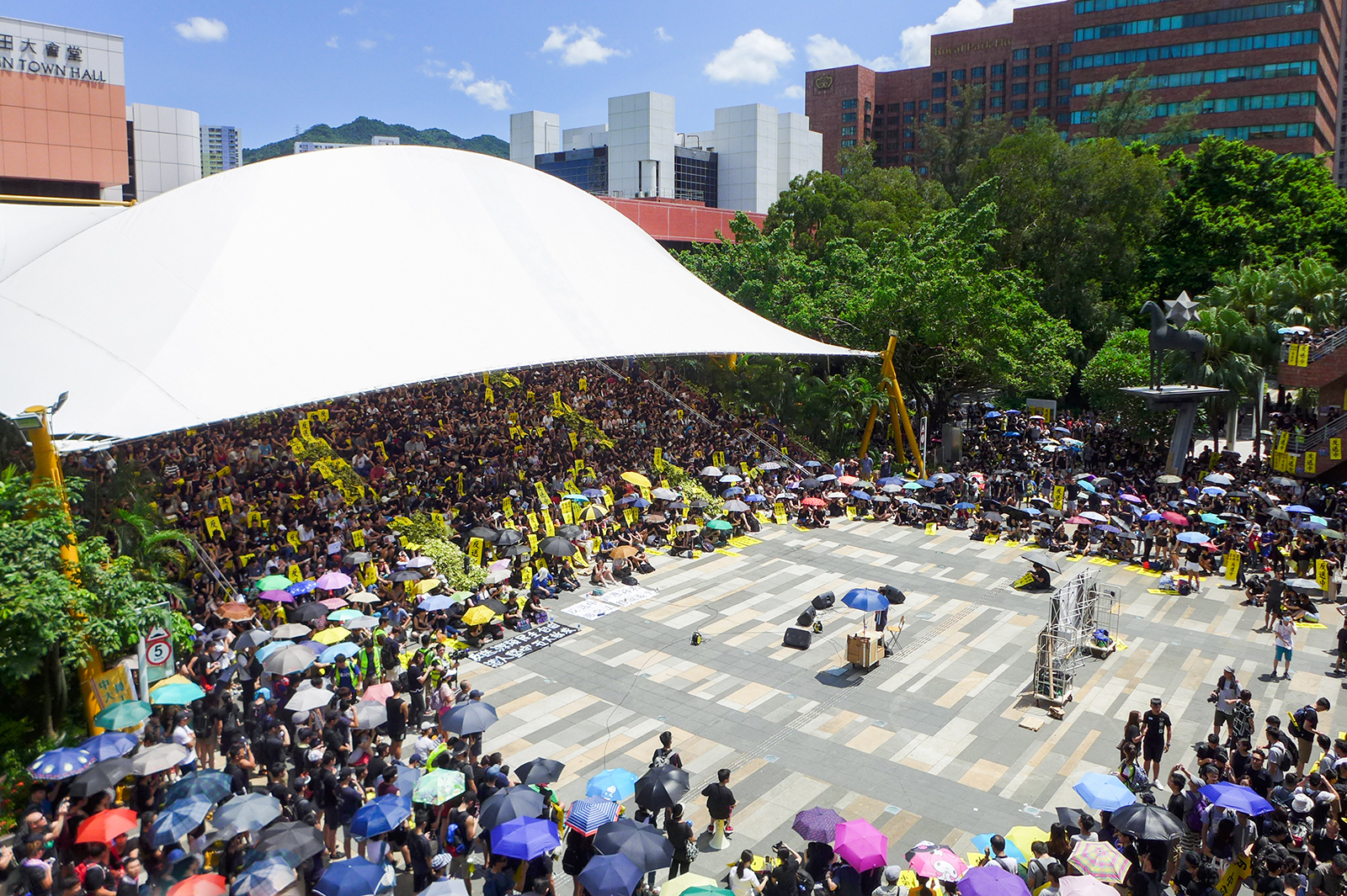 Shatin Town Hall Plaza people